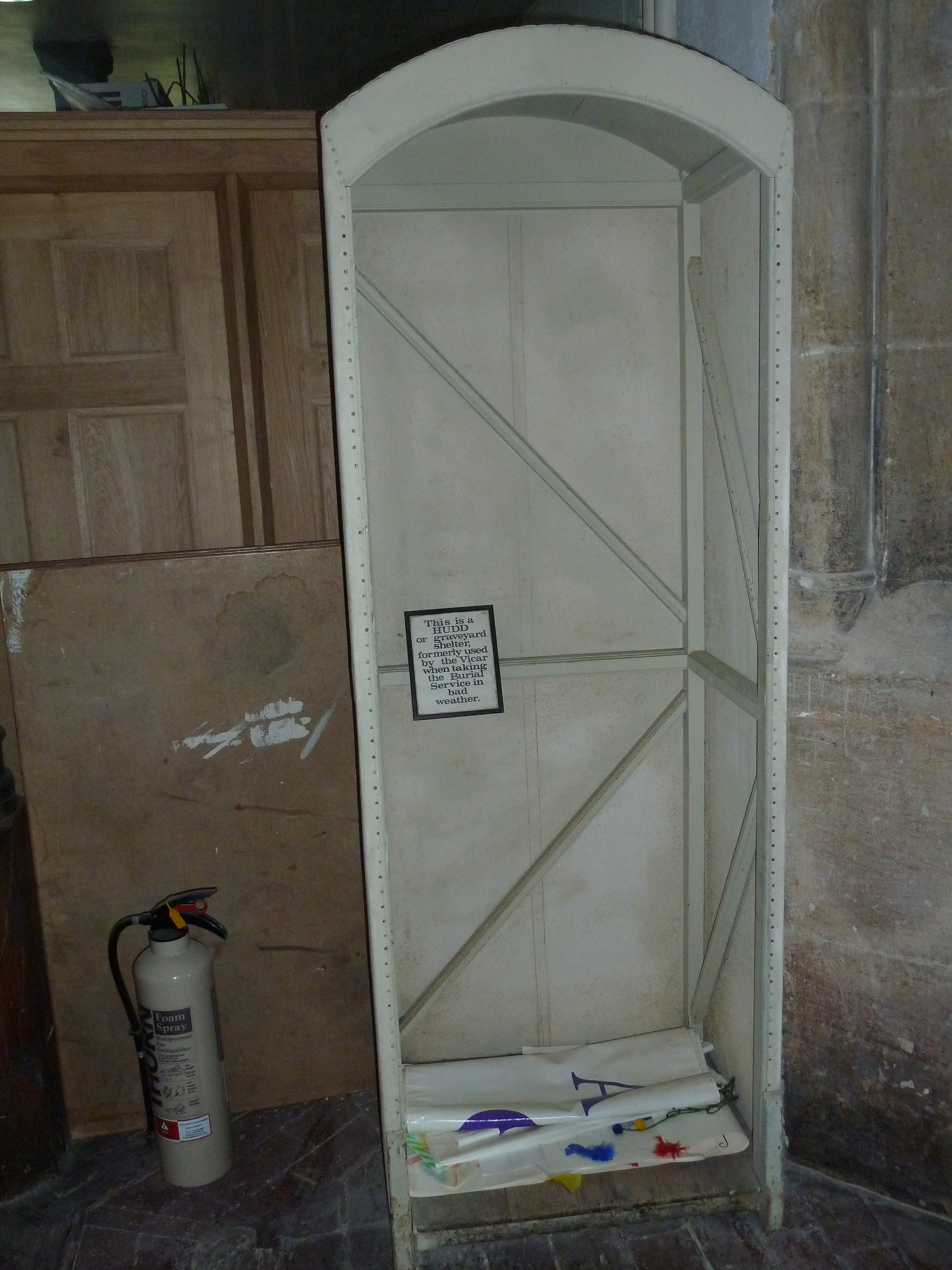 A graveyard shelter for an 18th century English parson